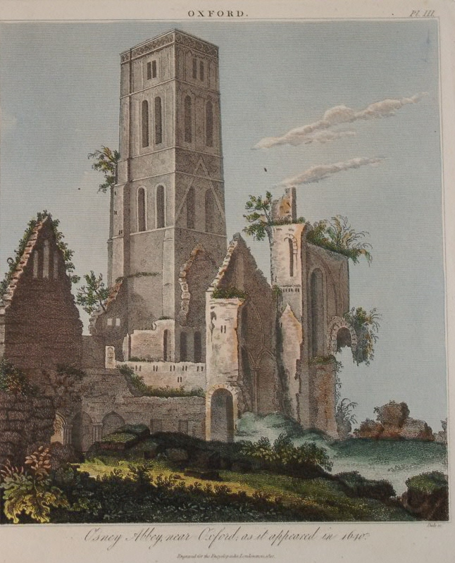 Detail of a print from 1640.